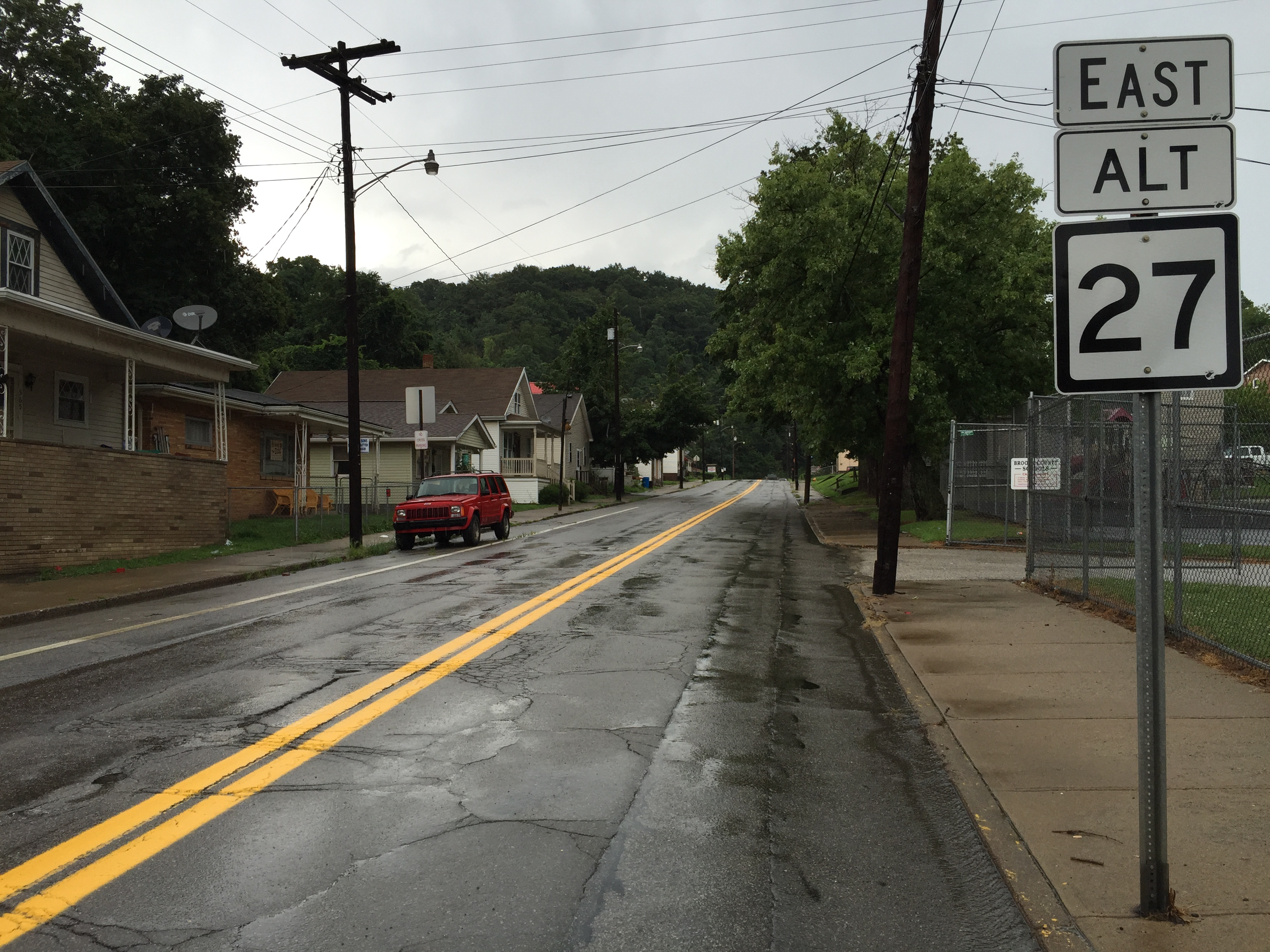 View east along West Virginia State Route 27 Alternate (Allegheny Street) at Beechwood Road in Follansbee, Brooke County, West Virginia